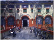 Institute of Pharmacy, Jalpaiguri